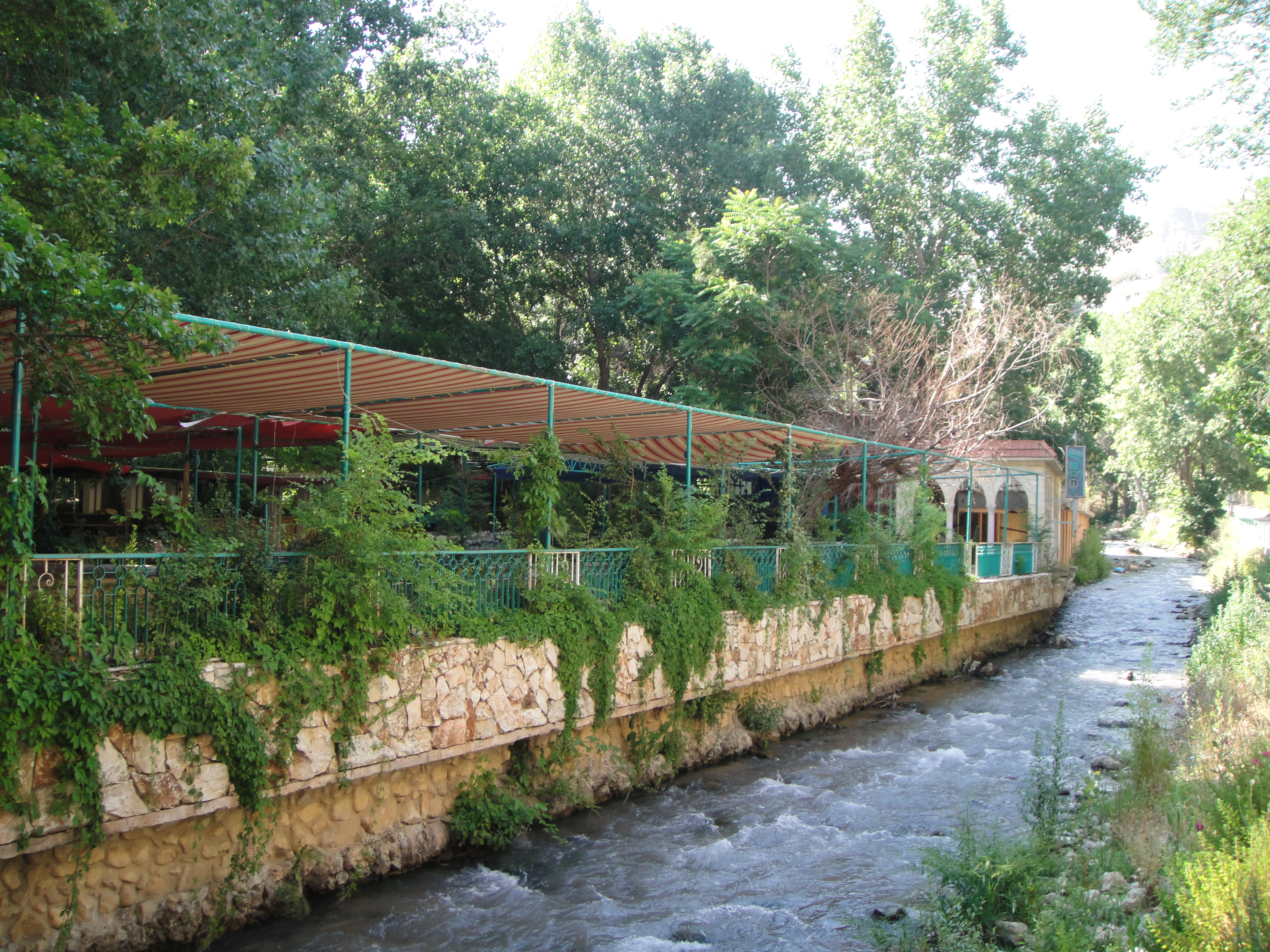 Cafes along the Berdawni River in Zahle, Lebanon. Cafes along the Berdawni River in Zahle, Lebanon.